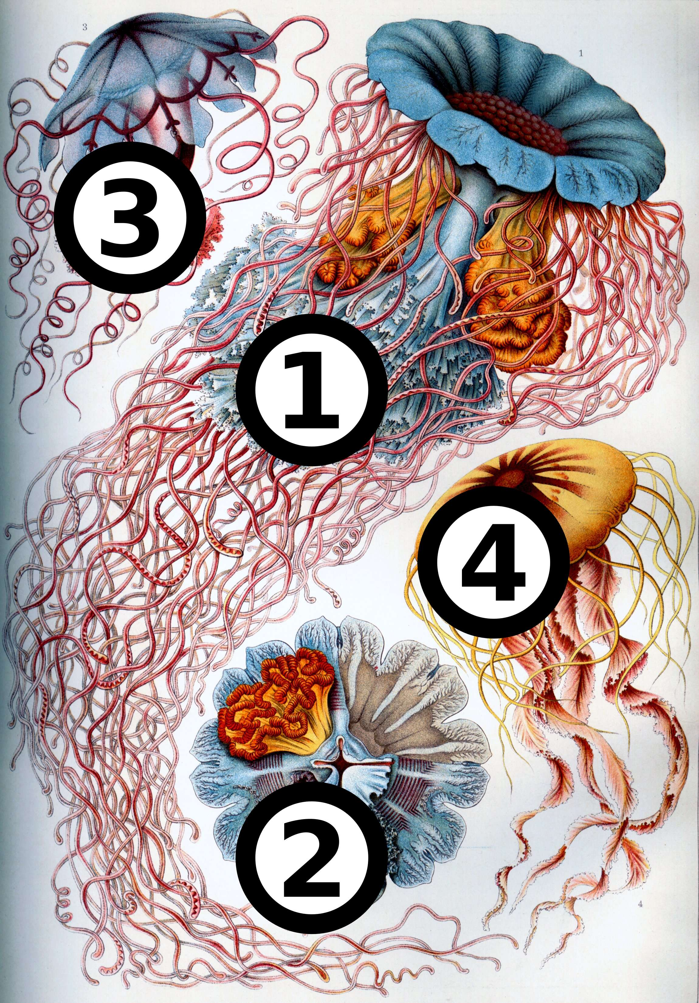 Based on Haeckel_Discomedusae_8.jpg. Original is Public Domain (old). I'm releasing this as PD too. Created in Inkscape. Desmonema Annasethe (Haeckel) = Cyanea annasethe Haeckel, 1880, adult Desmonema Annasethe (Haeckel) = Cyanea annasethe Haeckel, 1880, bell of adult from below, tentacles and most other appendages removed, retaining gonads (top left) and mouth veils (bottom); top right: cut open to show stomach Floscula Promethea (Haeckel) = Floresca sp.?, juvenile Chrysaora mediterranea (Peron) = Chrysaora hysoscella (Linnaeus, 1767), adult